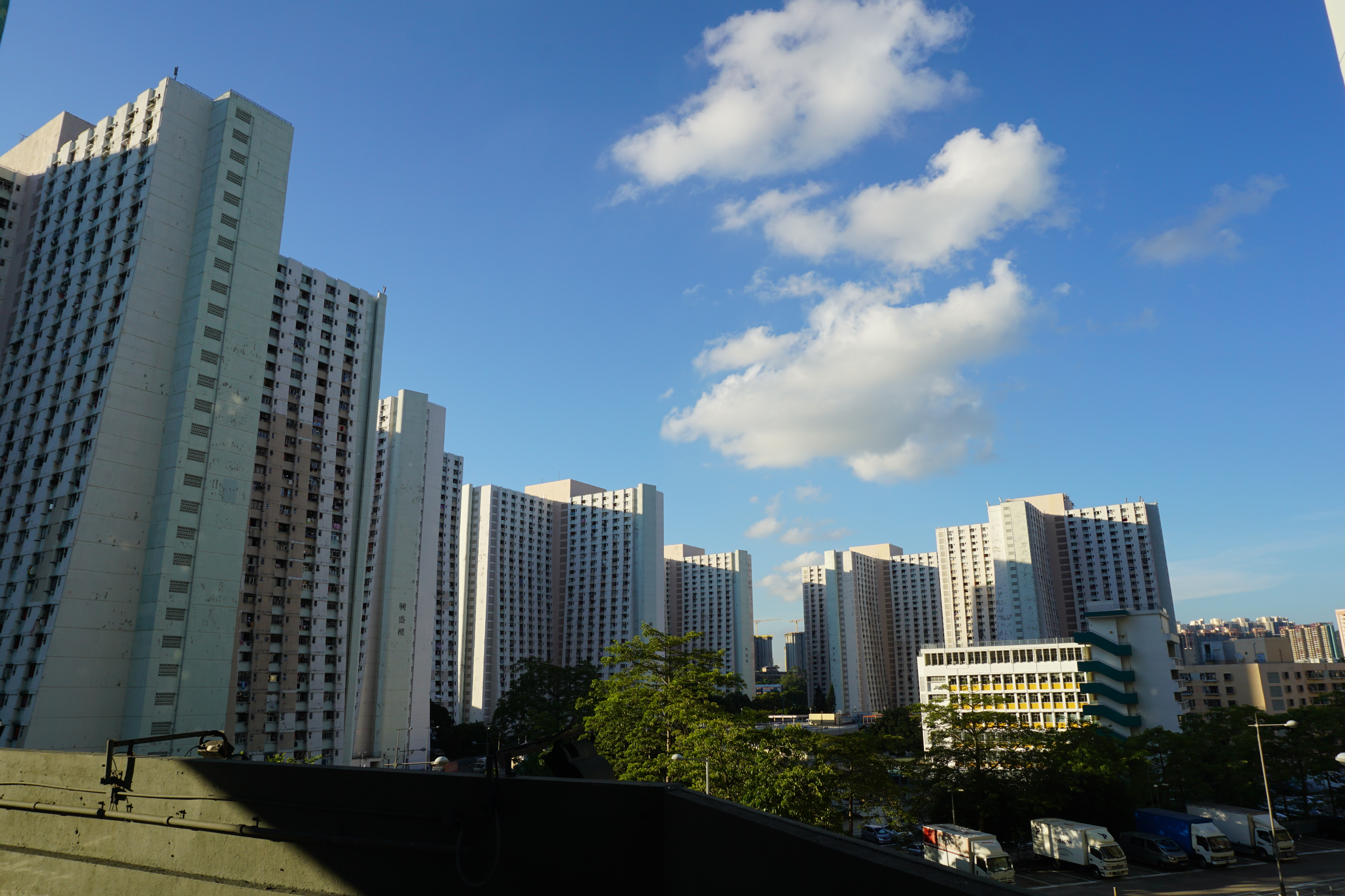 Tai Hing Estate in Tuen Mun, Hong Kong.